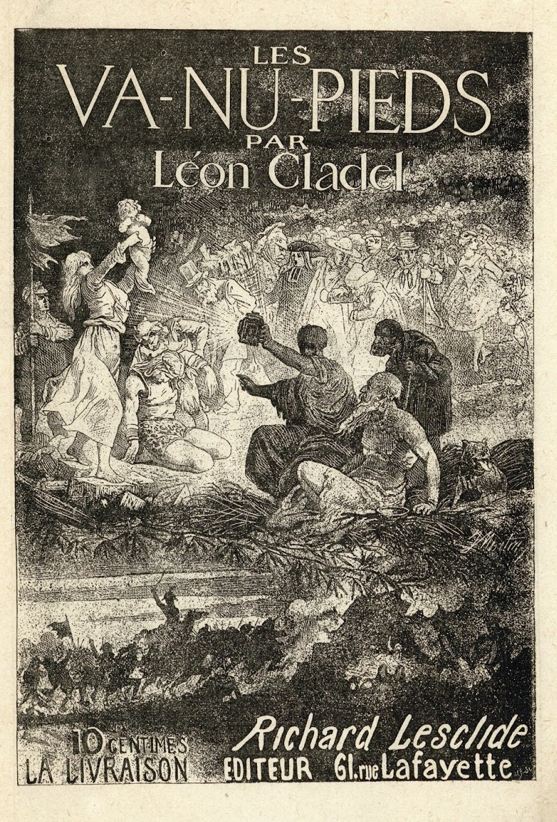 Poster designed by Jules Martin [signature], for Les Va-nu-pieds, a novel by Léon Cladel, published by Richard Lesclide.